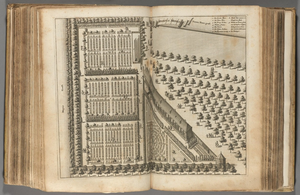 Engraving "Hortus Medicus", from the book Beschryvinge van Amsterdam, desselfs eerste oorspronk uyt den huyse der heeren van Aemstel en Aemstellant, 1693, by Caspar Commelin (1668-1731). Neth 3250.3, Houghton Library, Harvard University